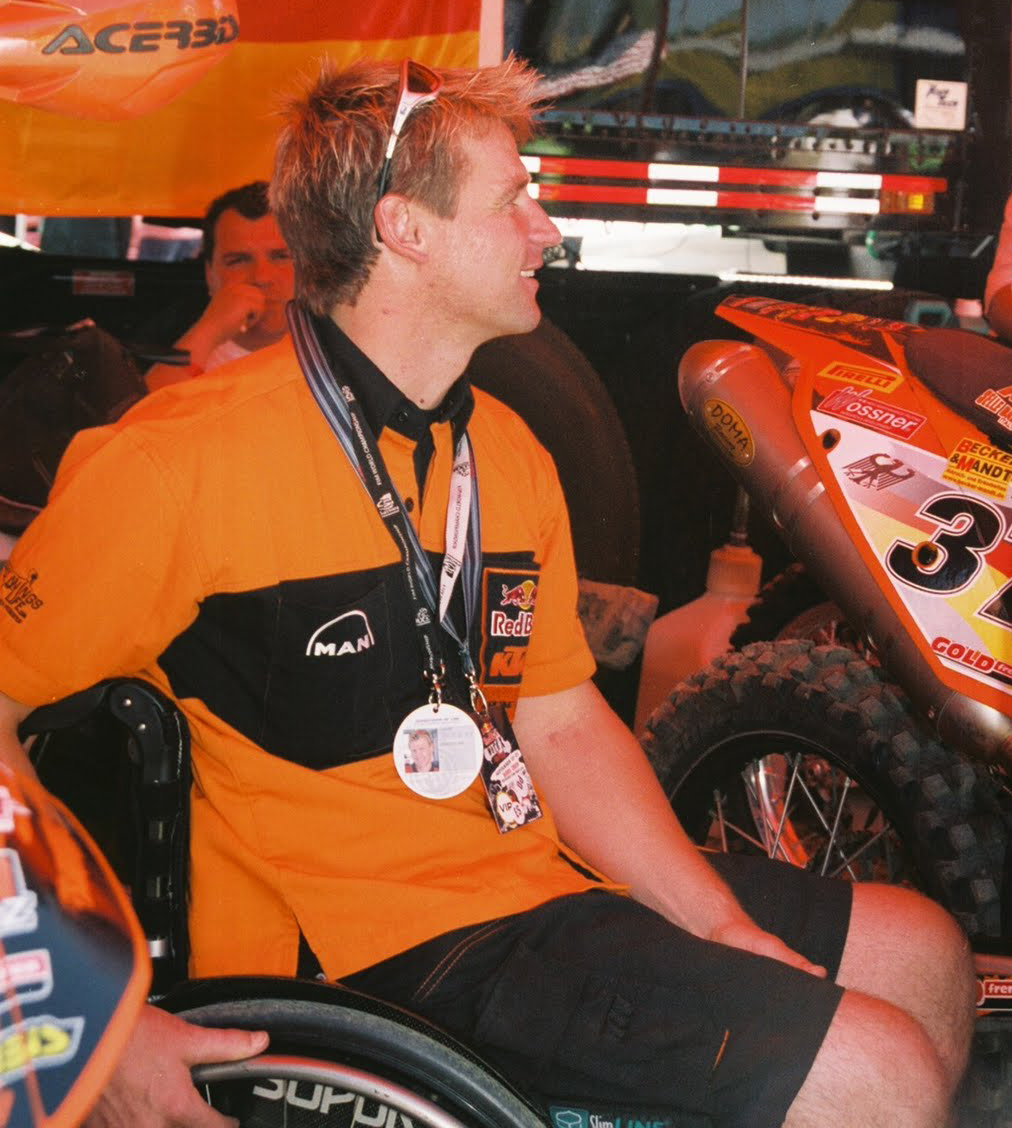 German warrior Pit Beirer was vice-World Champion in the late 90s. I befriended him after trying to console him from just missing the title in Budds Creek Maryland. We have kept in touch since the accident that ended his career. He is the race director of KTM Grand Prix motocross teams. (original text)